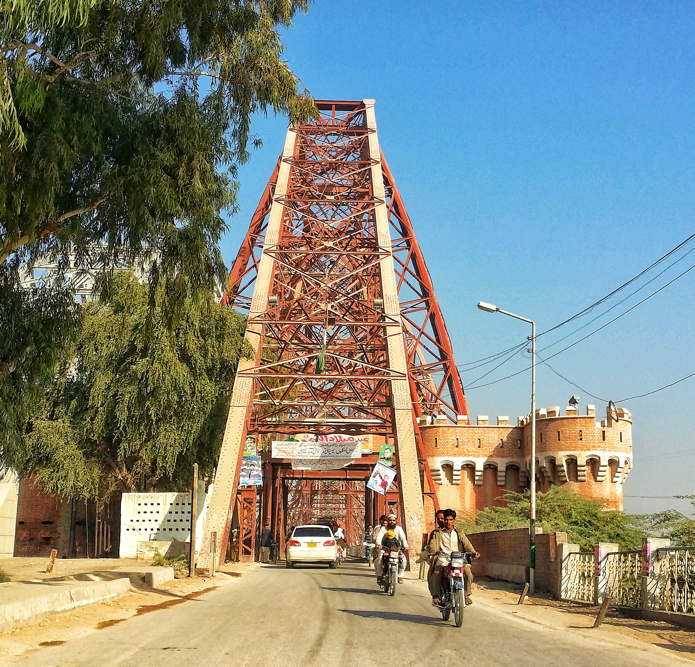 Landsdown Bridge This is a photo of a monument in Pakistan identified as the SD-55.5